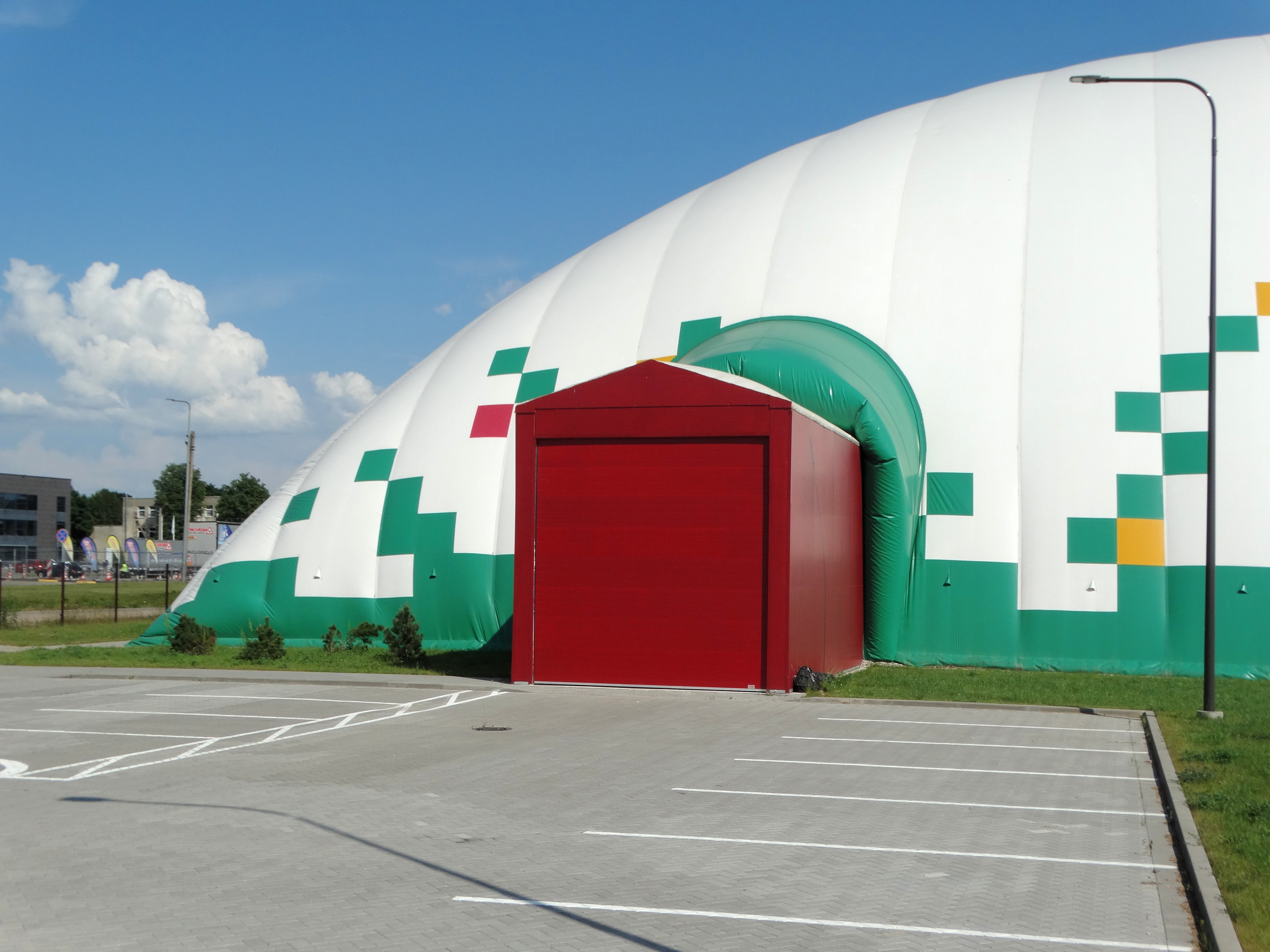 Inflatable indoor arena, Kaunas, Lithuania